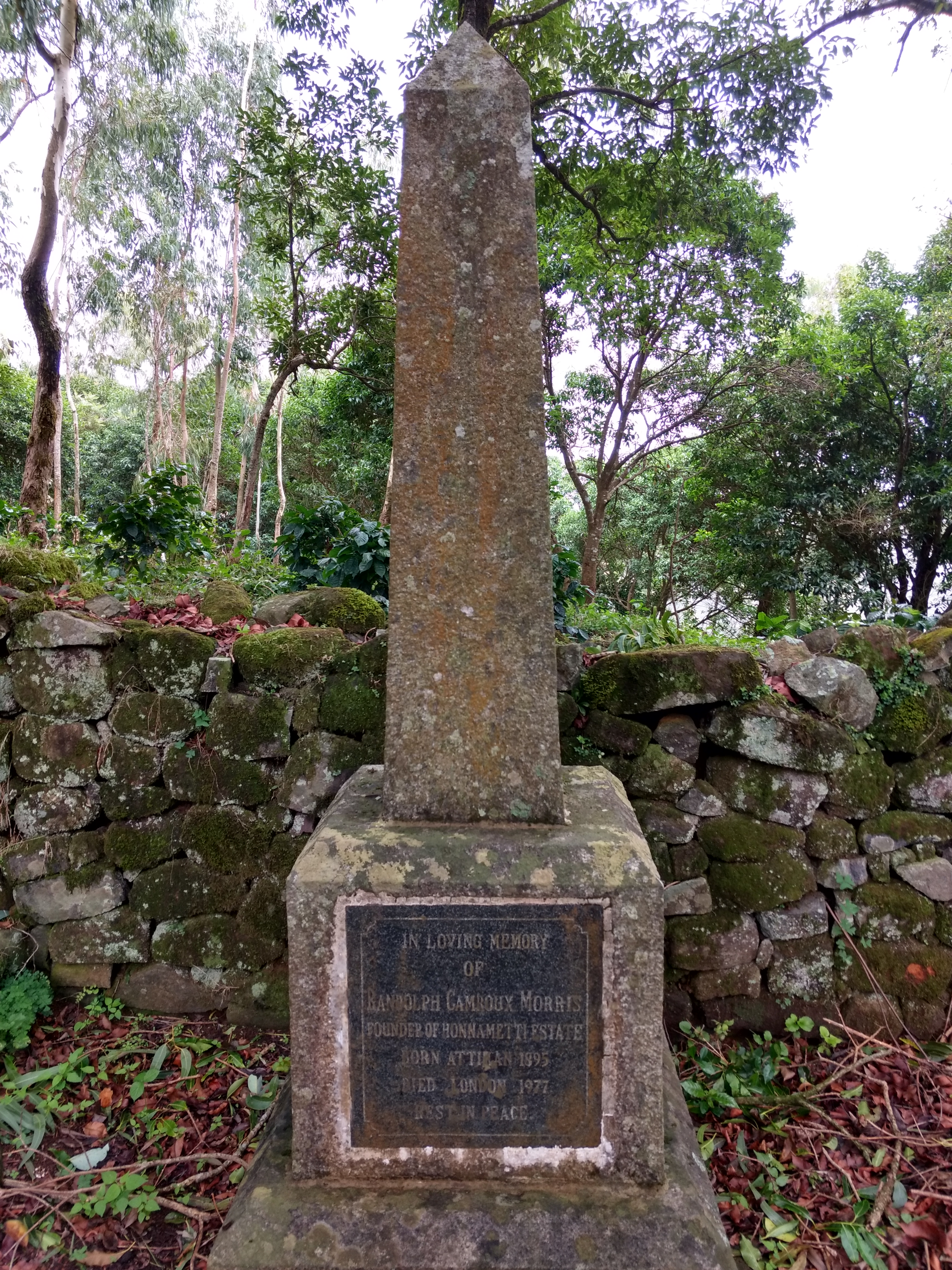 Memorial to Randolph Camroux Morris, Biligirirangans, India.